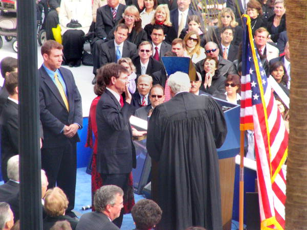 View of Attorney General Bill McCollum being sworn into office by Chief Justice R. Fred Lewis - Tallahassee, Florida.